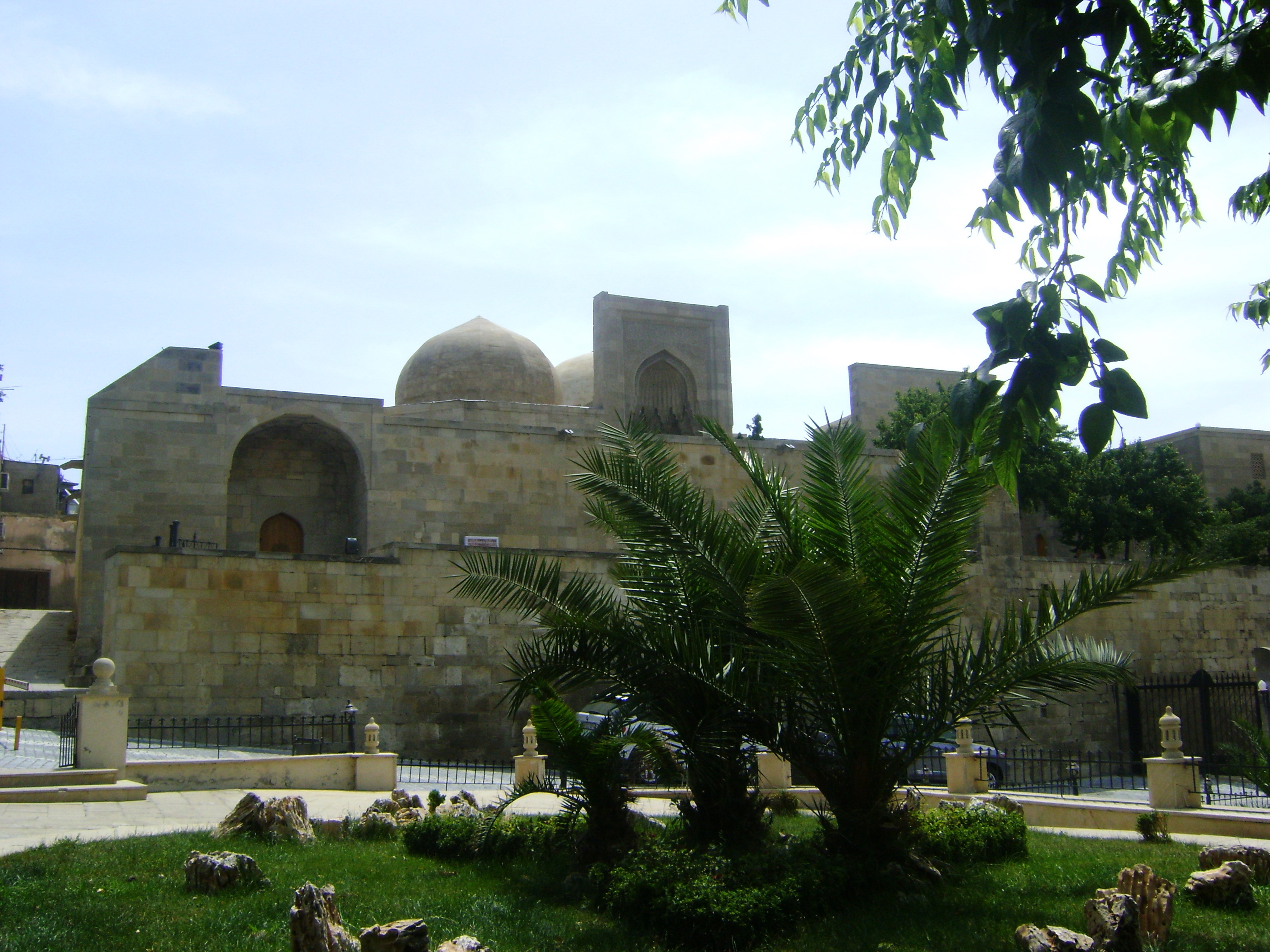 shirvanshakh_palace_old_city(baku)_azerbaijan_8-18centuries - general view